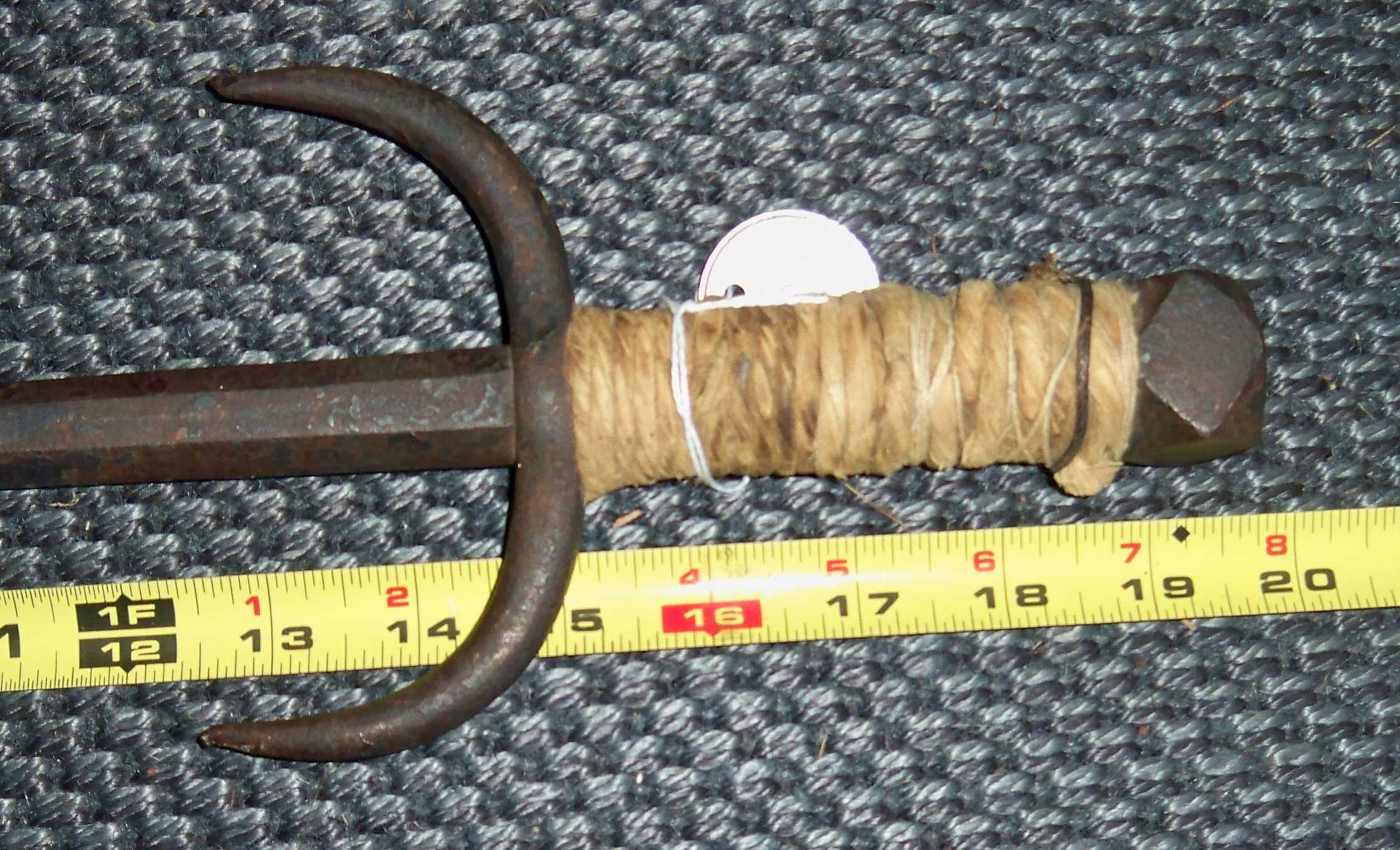 Antique Okinawan sai, showing the handle (tsuka), the butt or pommel (tsukagashira), the guards or prongs (yoku), the handle wrap (tsukamaki) and the center (moto) were the shaft (monouchi) and the yoku meet.